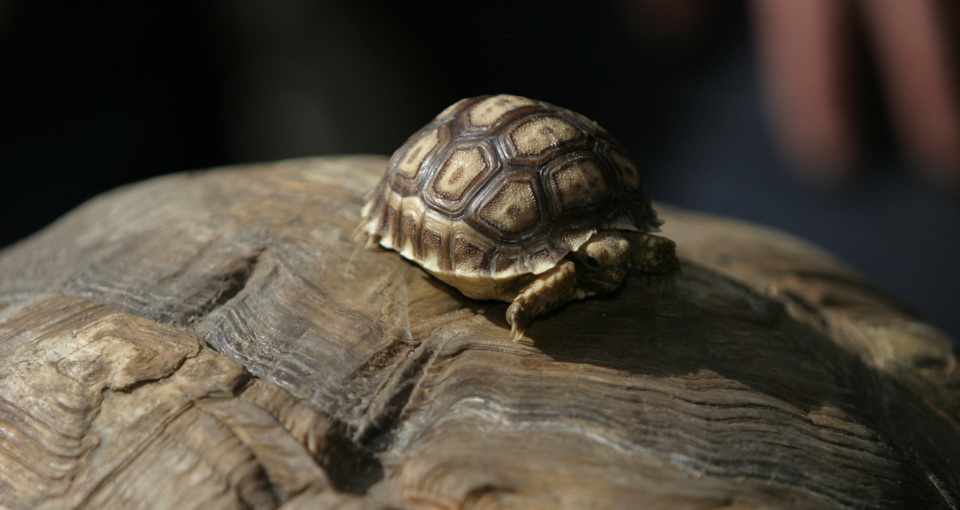 A young African Spurred Tortoise (Geochelone sulcata) on the shield of its mother.